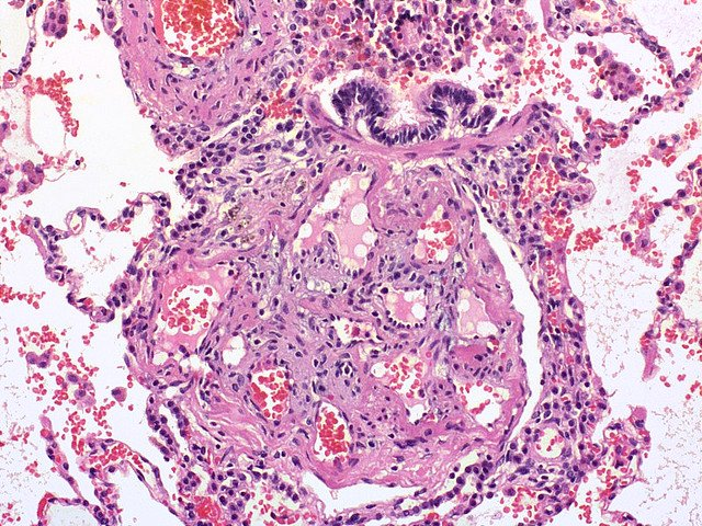 Plexiform lesion - Pulmonary hypertension